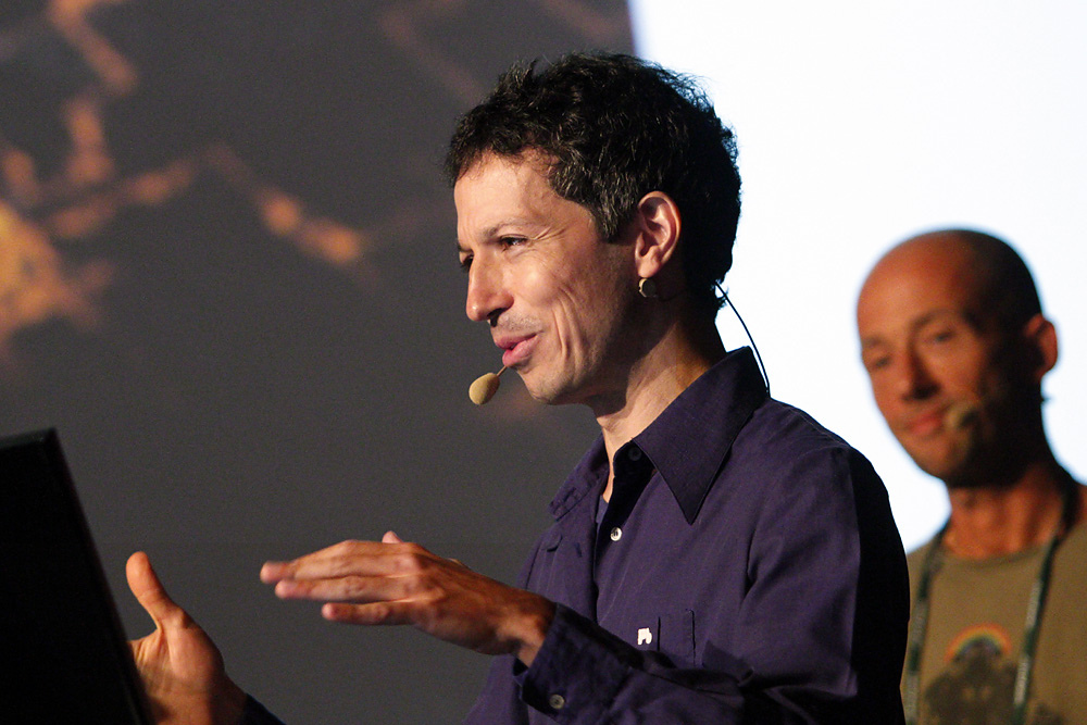 Eric Chahi, a French video game designer, speaking at the 2010 Game Developers Conference.